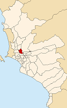 Map of the Lima Province highlighting the district of Rímac Created by User:StarbucksFreak - May 2005